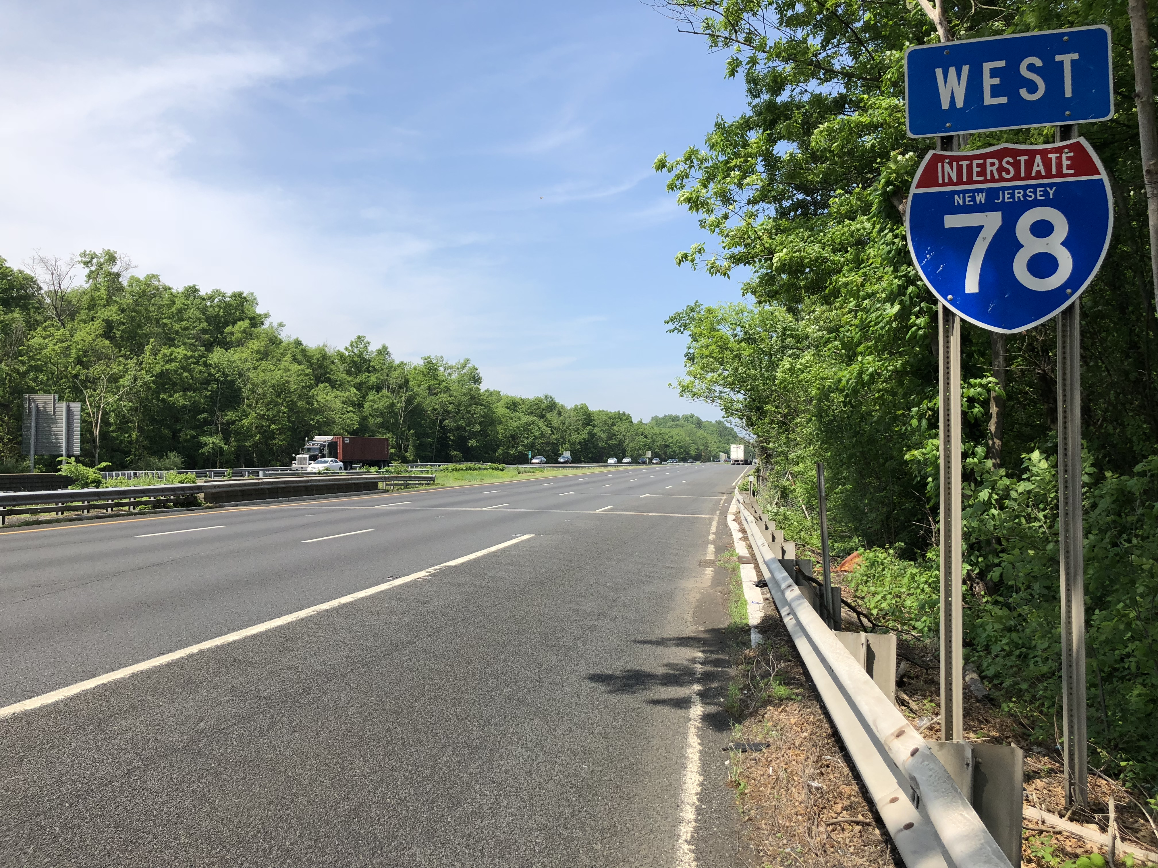 View west along Interstate 78 (Phillipsburg-Newark Expressway) between Exit 36 and Exit 33 in Warren Township, Somerset County, New Jersey